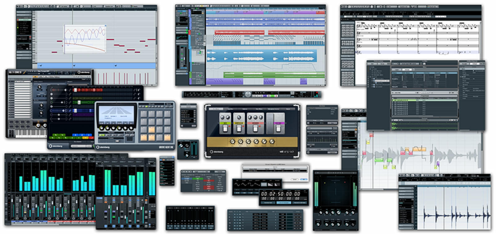 Cubase 6 feature collageLicensed under CC-BY-SA-3.0 on